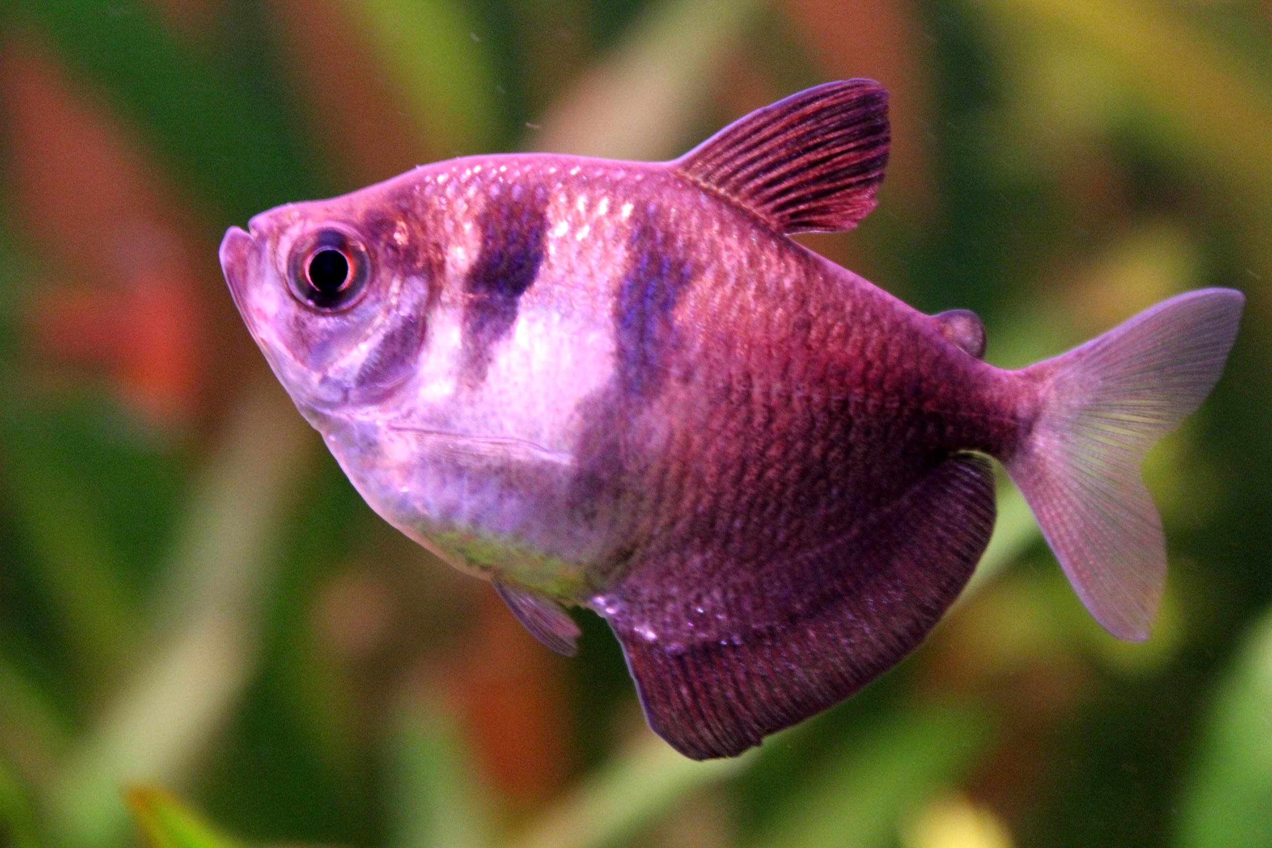 Gymnocorymbus ternetzi